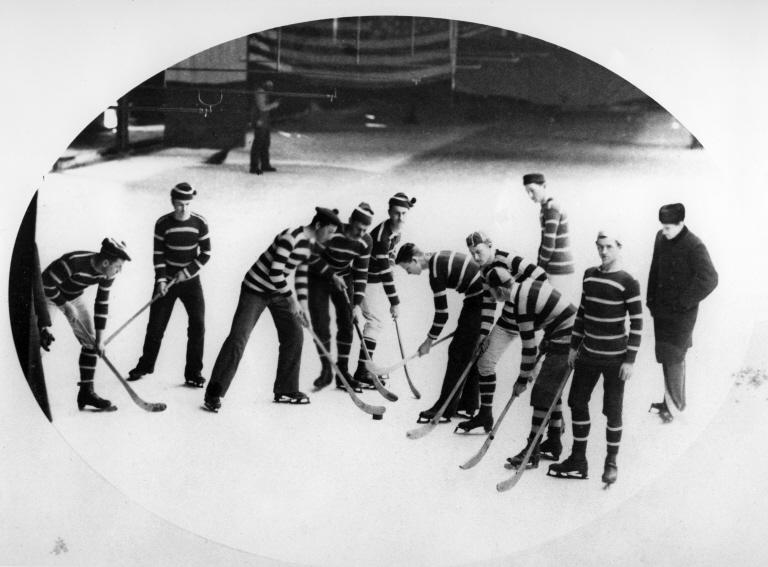 Photograph, Hockey match, Crystal Palace skating rink, Montreal, QC, 1881, George Charles Arless, Silver salts on paper mounted on card - Albumen process - 10 x 12 cm